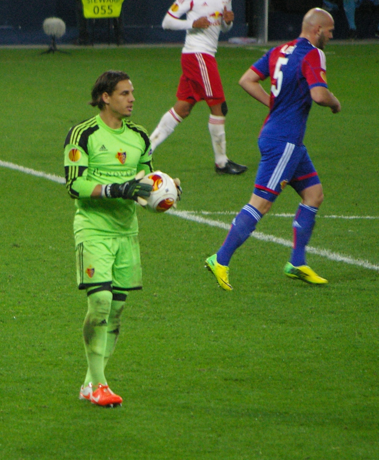 Euro league 2014 round of 18